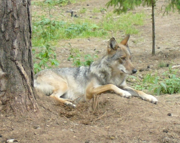 A wolf at the Braslaw national park, Belarus